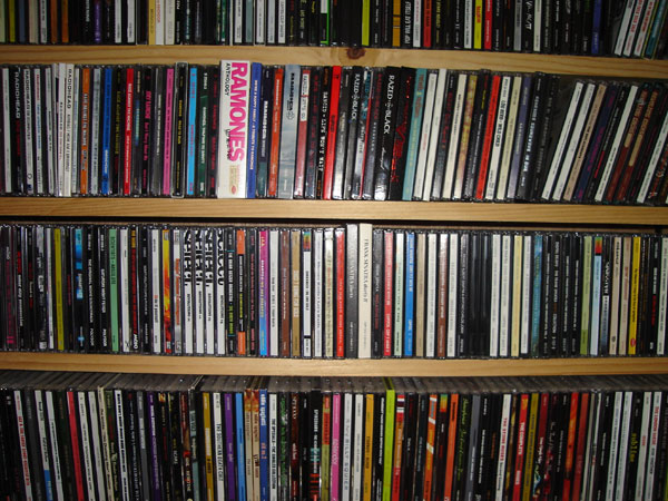 CD collection. Orginal text: Here are some of our thousands of cds. My Dad made these bookcase-type cd cases for us before he passed away. They are great, as is everything my Dad made!